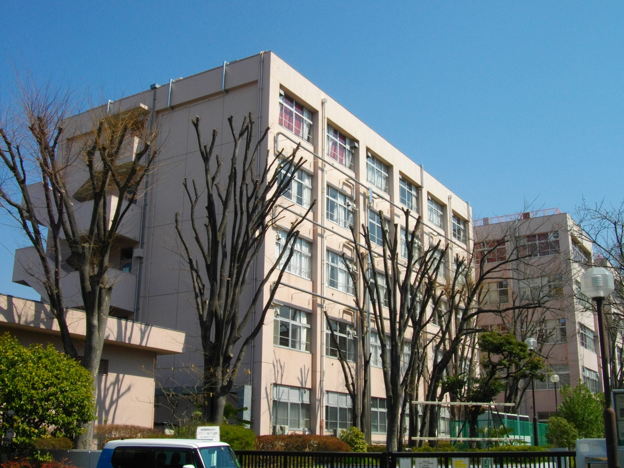 Adachi-Higashi High School